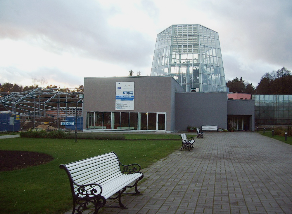 Botanic Garden in Tallinn